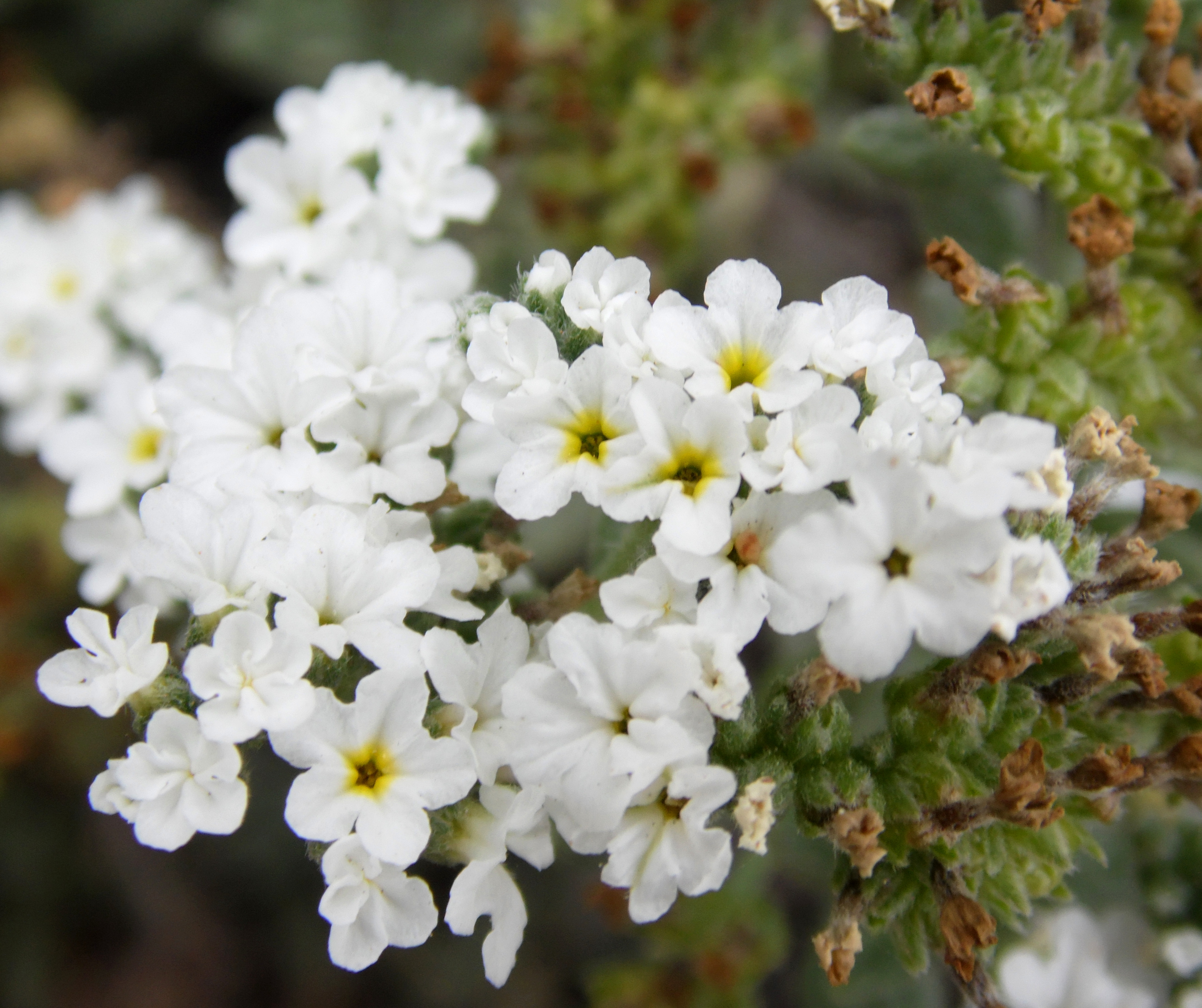 Heliotropium ramosissimum in Parque Botánico de Maspalomas (Gran Canaria)